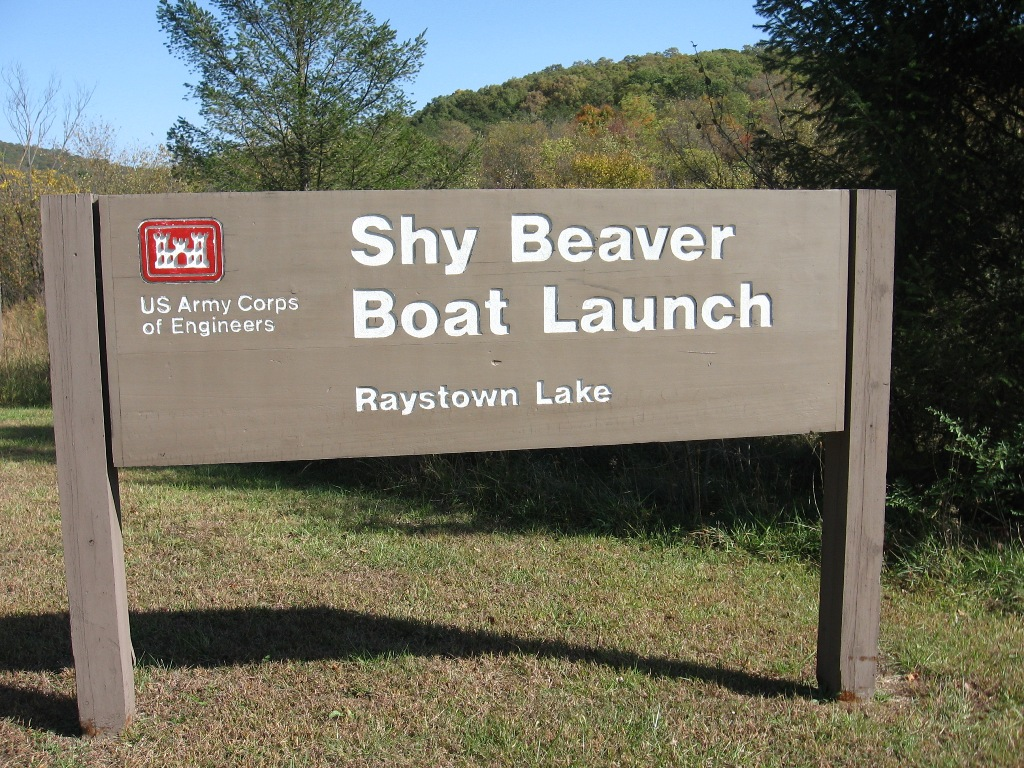 Shy Beaver Boar Launch at Raystown Lake, part of the US Army Corps of Engineers.